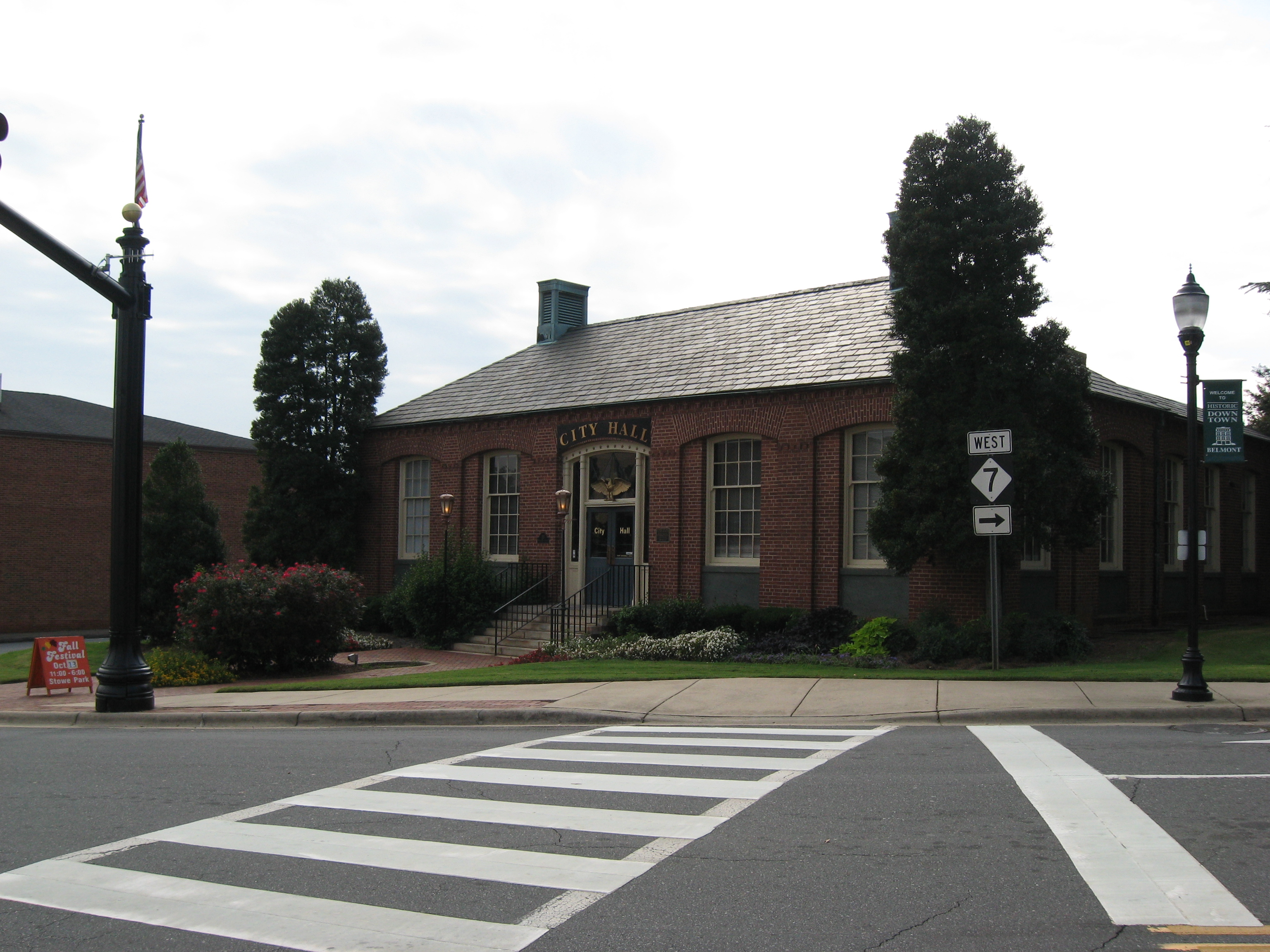 Former U.S. Post Office in Belmont, NC. Now Current City Hall for Belmont.